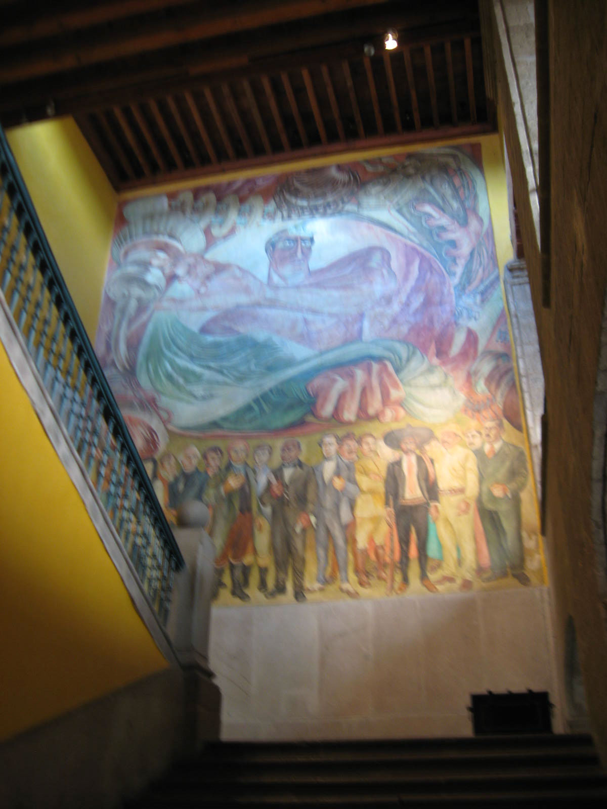 Mural "Canto a lo Heroico" by Jose Gordillo in the main stairwell of the SHCP museum located in Mexico City